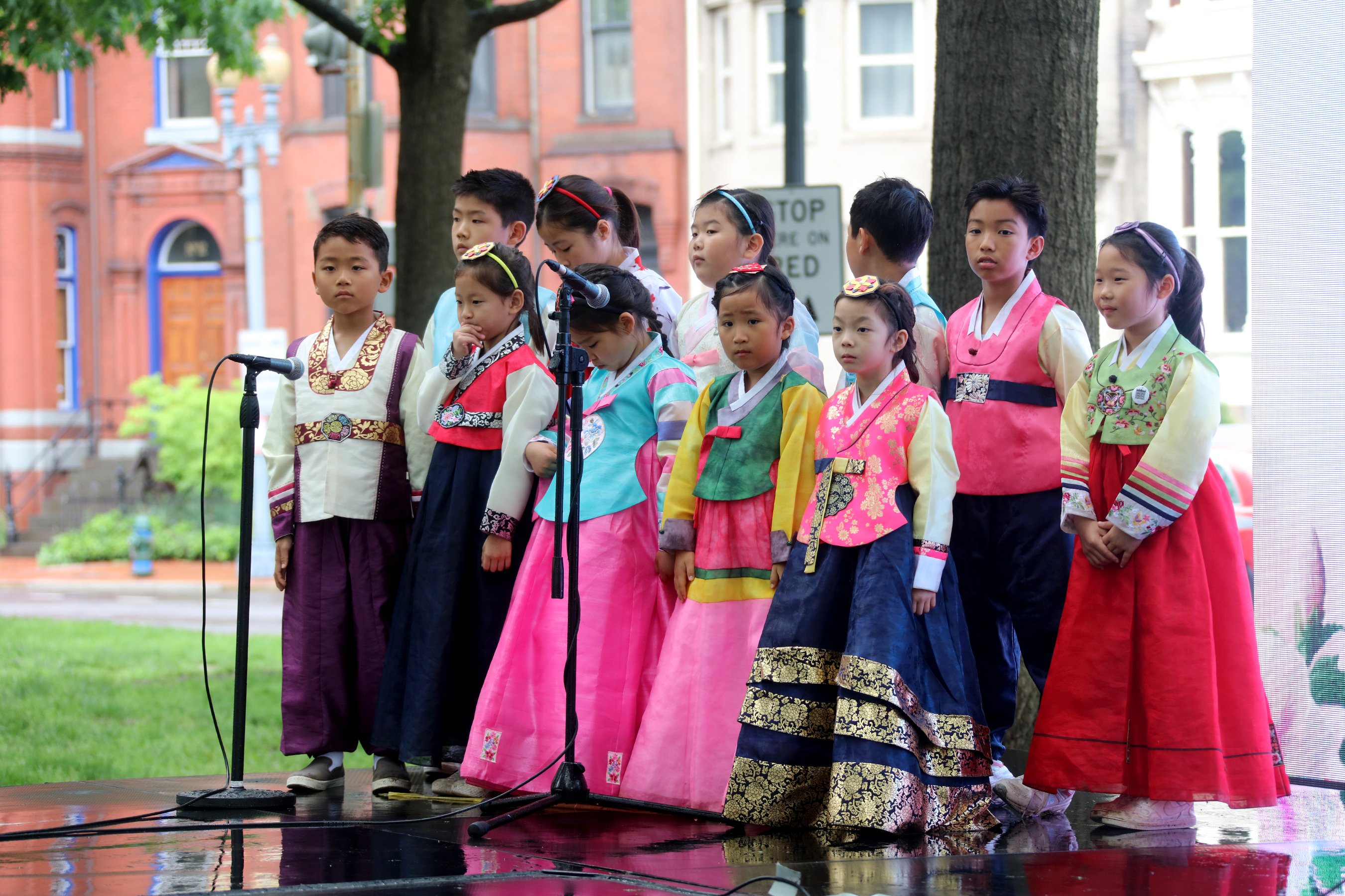 First Lady Yumi Hogan Attends Opening Ceremony for Old Korean Legation by Steve Kwak at 1500 13th St NW, Washington, DC 20005